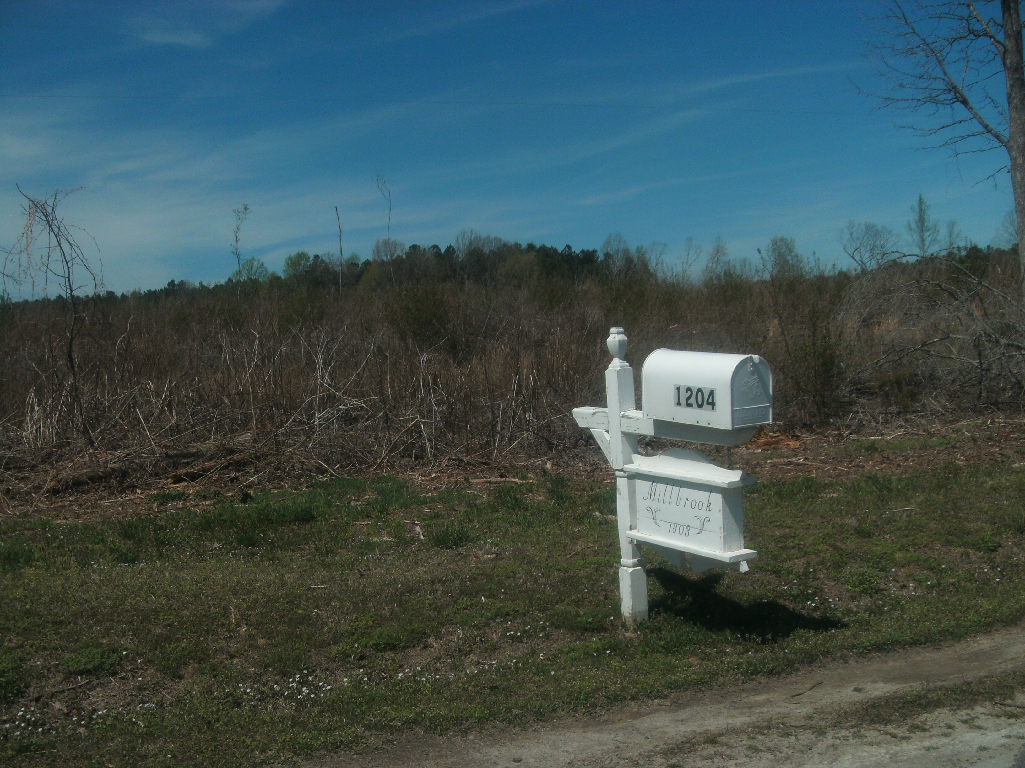 Millbrook